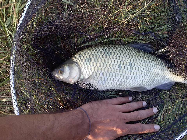 Rutilus pigus collected in Padus drainage, N Italy.